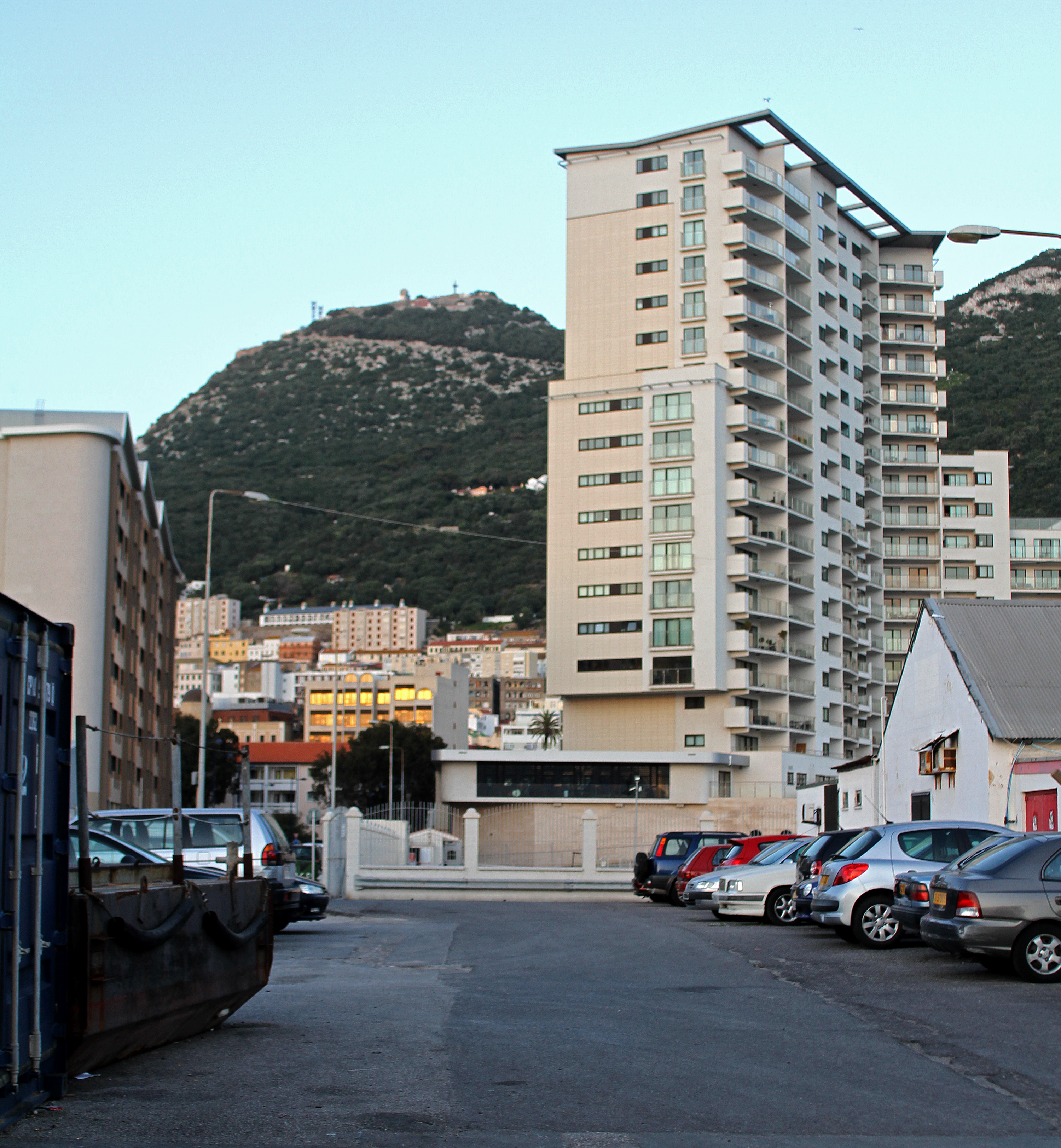 Road leading towards the quayside of Coaling Island